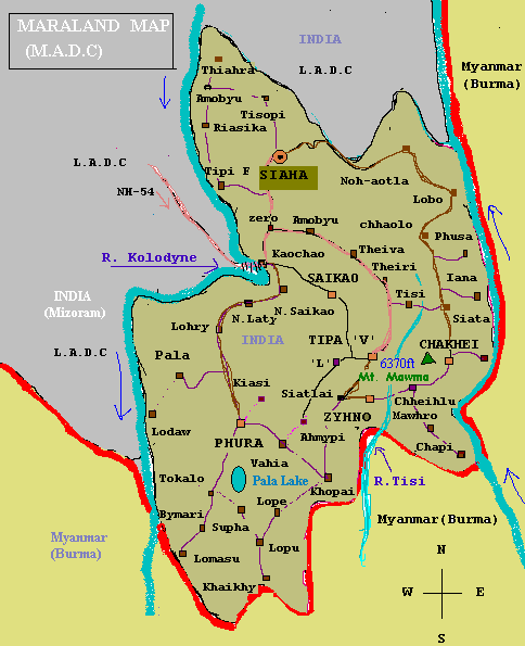 This is Maraland called Lakherland in Chin State thru Mizoram.